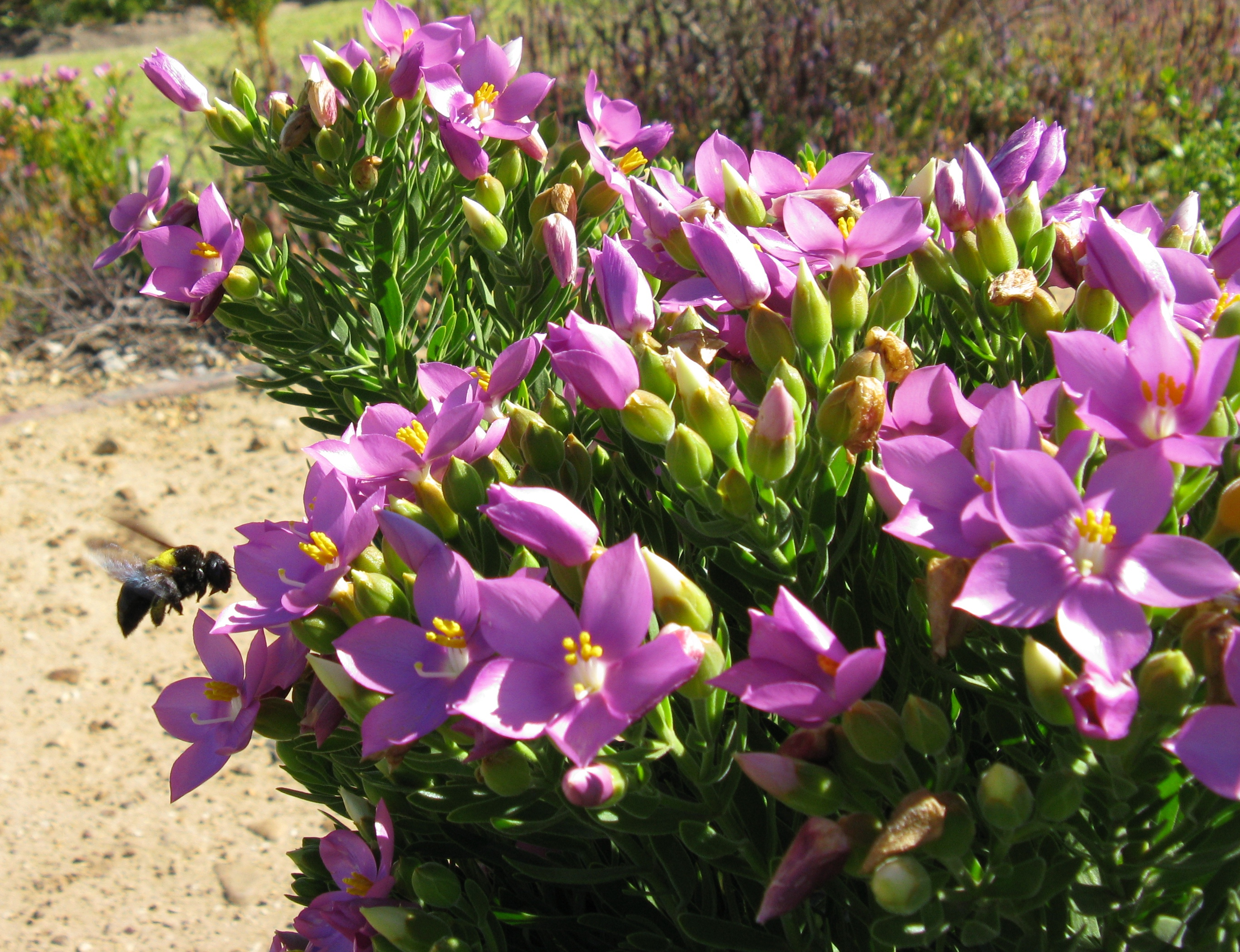 Xylocopa caffra is probably the most familiar carpenter bee in the Western Cape of South Africa. Note that it is now regarded as being in the family Apidae, in which the Anthophoridae now are included. Orphium frutescens is a coastal fynbos plant in the family Gentianaceae. It grows along the coast of the south western Cape of South Africa. Its flowers are a cheerful, glossy pink with golden stamens, avidly visited by pollinators. It is a short-lived perennial that self-seeds even on unpromising soil, though it really does best on dune sands. As it happens, this species of plant and this bee have a mutually beneficial adaptation; the ripe anthers do not release their pollen till they sense a vibration of a frequency close to that of the wings of this species of bee, then they release it explosively over the bee. The bee in turn collects the pollen for its larvae, disseminating some of it in her visits to more flowers. The anthers can be stimulated to release their pollen by stimulating them with a suitable tuning fork.